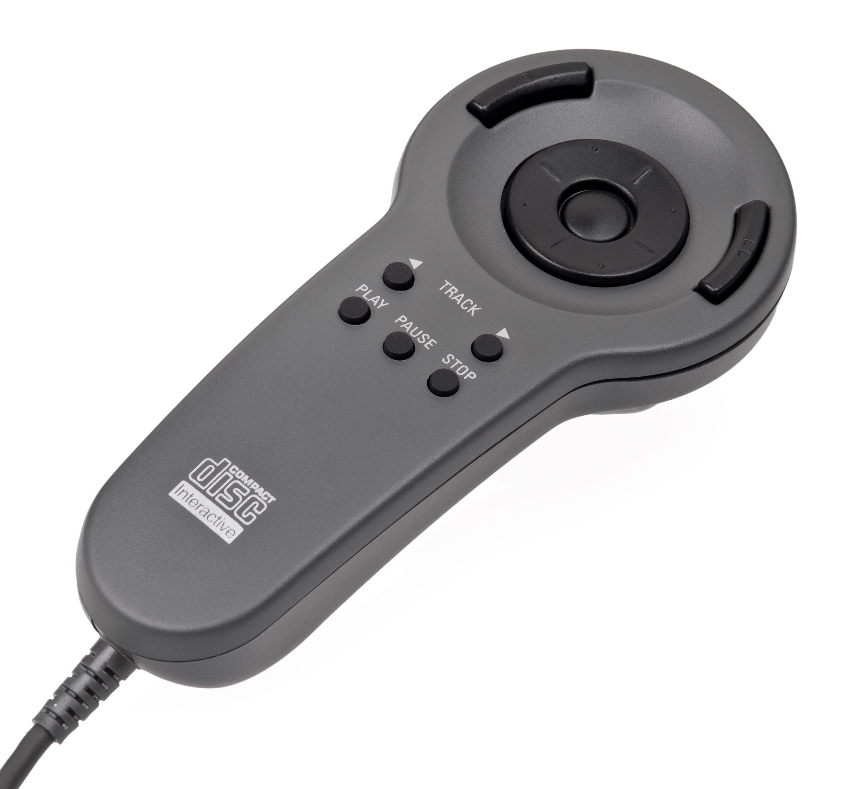 A Philips CD-i controller from the 400 series. An awkward paddle-shaped thing.